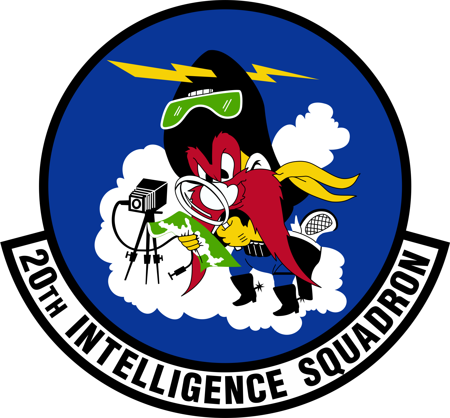 Squadron emblem for the 20th Intelligence Squadron